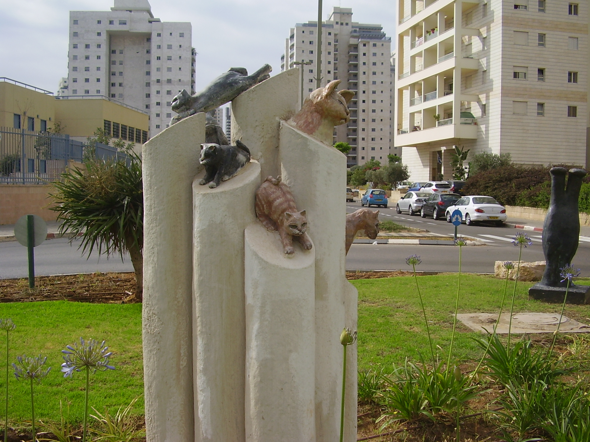 Cats square in Petah Tikva, Israel